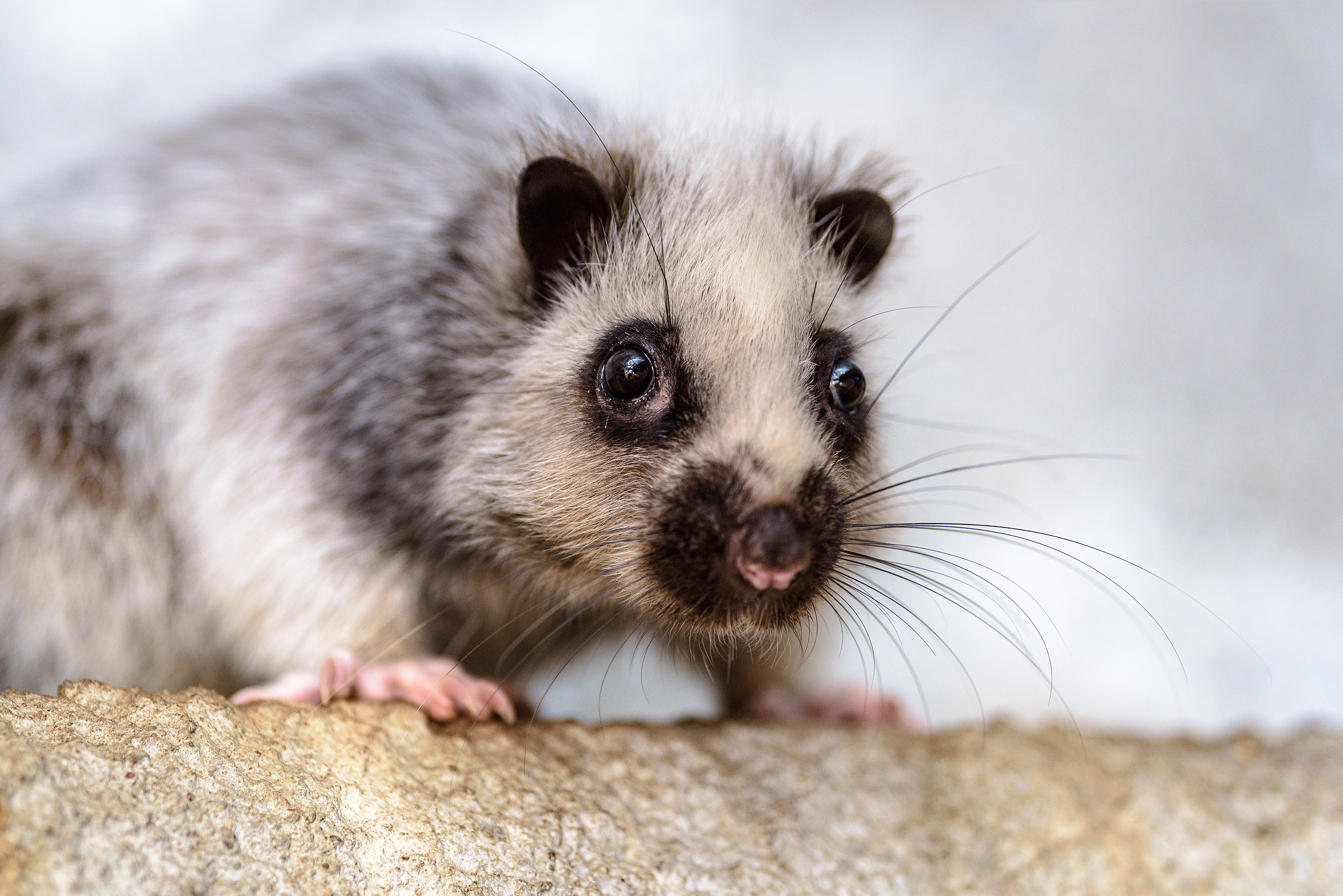 Northern Luzon Giant Cloud Rat, Prague Zoo